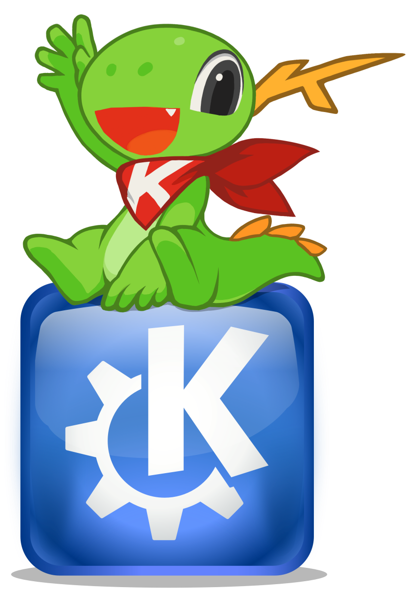 The KDE mascot Konqi sitting on the KDE logo